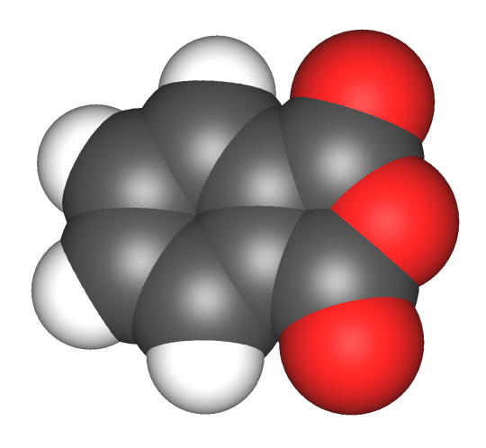 Phthalic anhydride.png